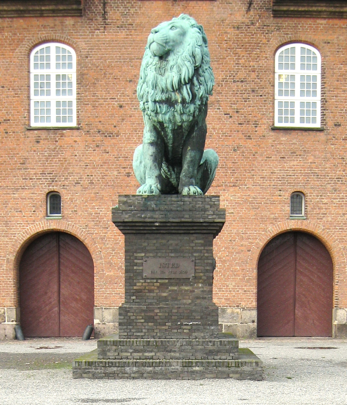 The Istedløven (Isted lion), a lion statue by Herman Wilhelm Bissen, which is a memorial of the battle of Isted (German: Idstedt). Sign reads: "Isted den 20. Juli 1850". First erected in 1862 in Flensburg, Schleswig (modern Germany), brought to Berlin in 1864 and since 1945 in Copenhagen. On September 10, 2011, the statue was brought back to Flensburg, now as a symbol of friendship between Denmark and Germany. There is a copy in Berlin today, the so-called Flensburg lion.